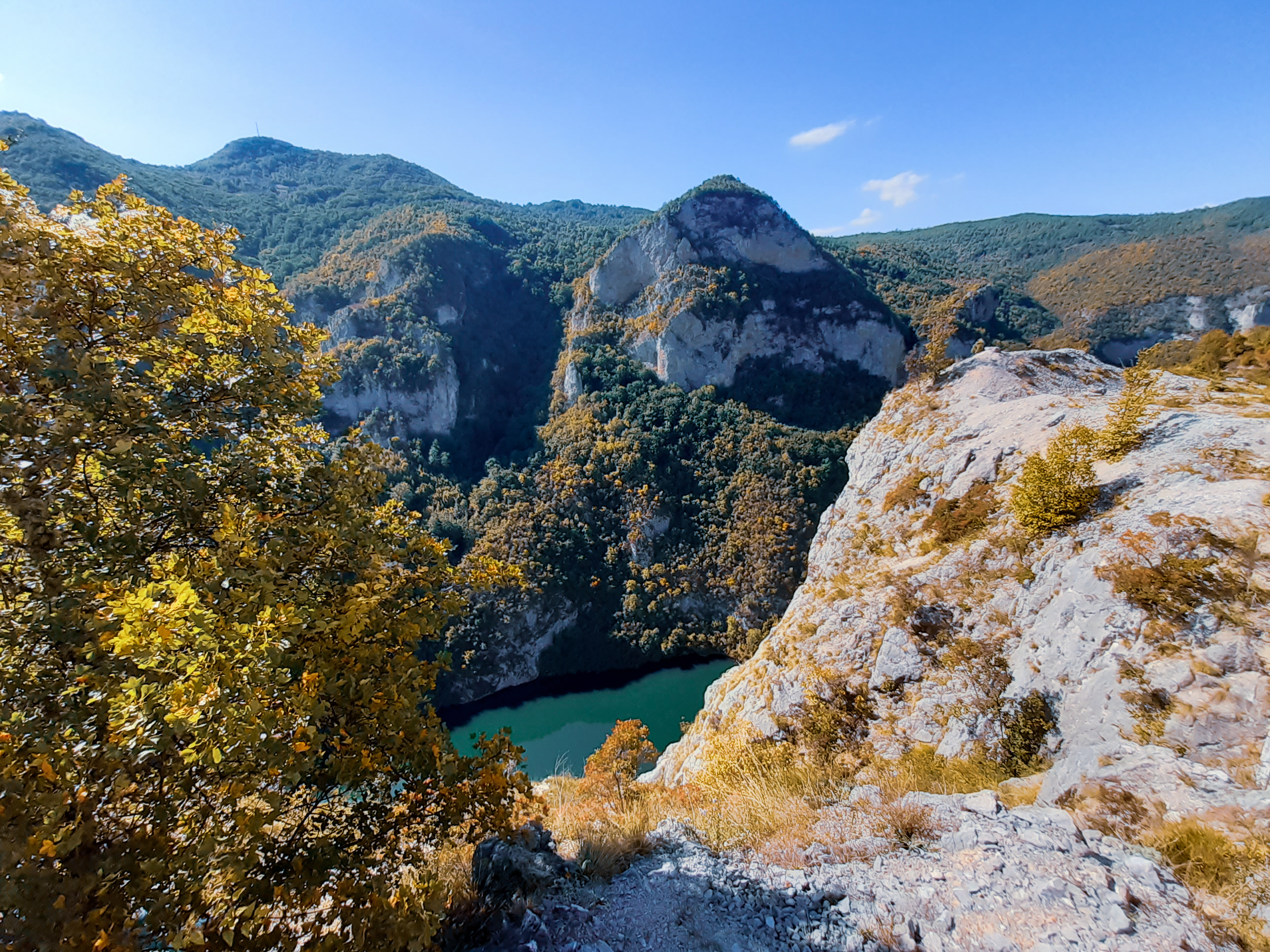 Srpski (latinica): PP Lim (Rudo). This image was uploaded as part of Trace of Soul 2019.